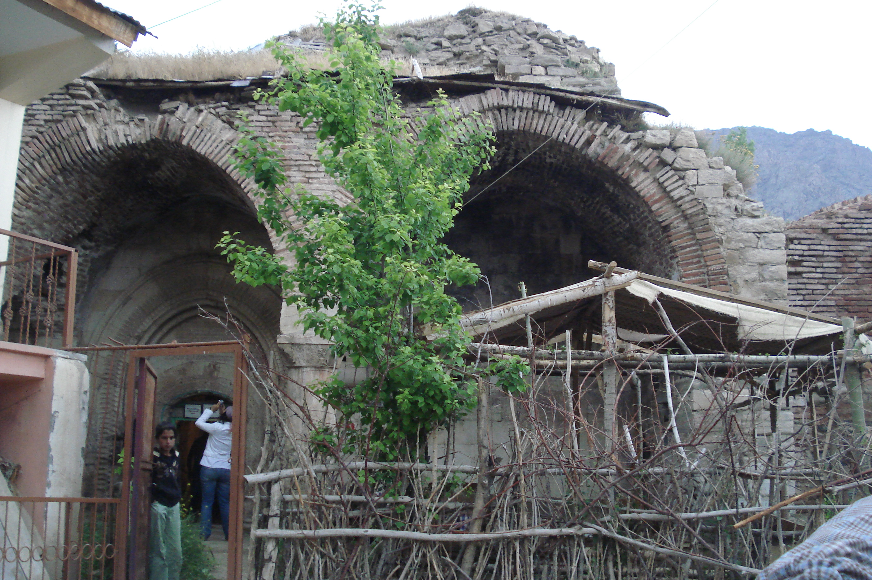 Varakavank in 2009